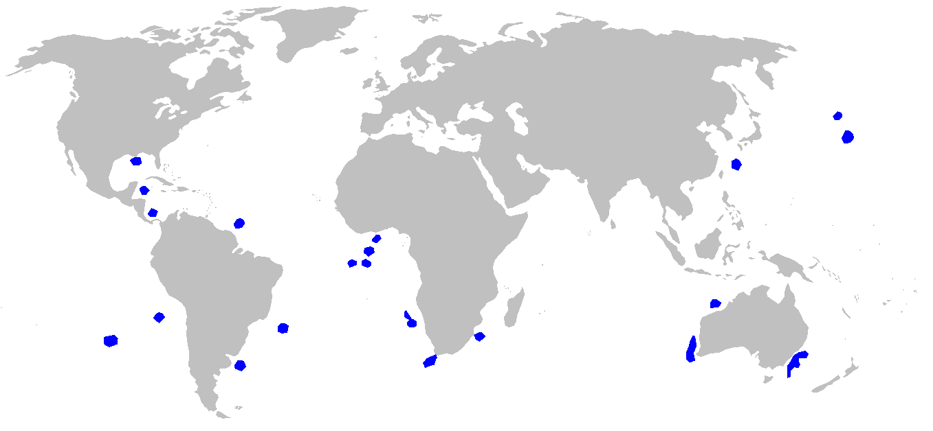 Distribution map for Etmopterus bigelowi